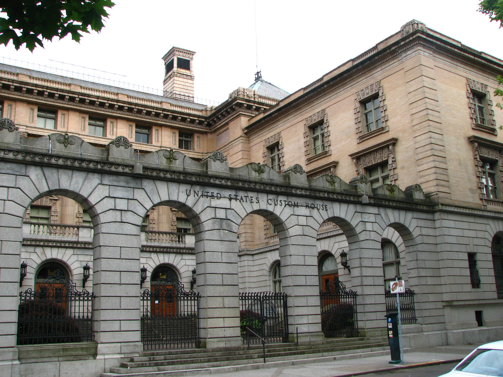 The historic US Customhouse (built 1897), located at 220 Northwest 8th Avenue in Portland, Oregon, United States, is listed on the US National Register of Historic Places.